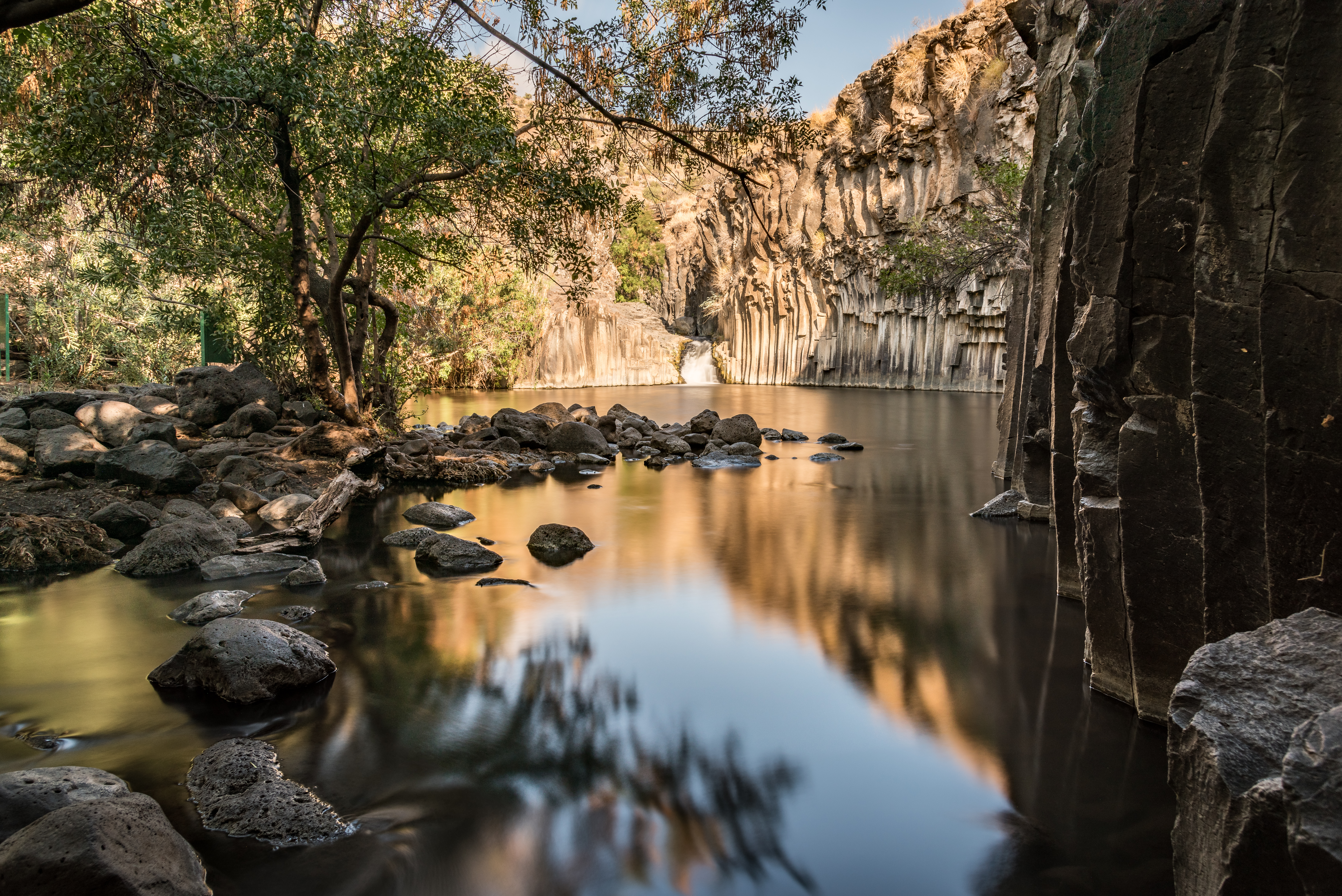 The hexagonal pool in northern Israel